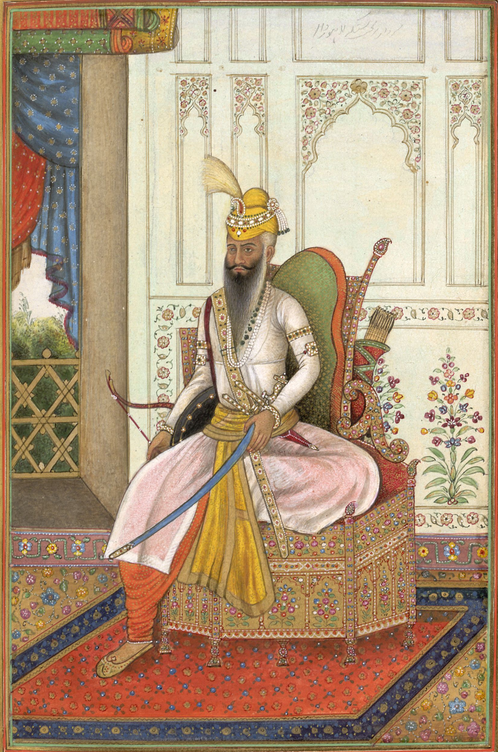 An illustration of Maharaja Ranjit Singh.